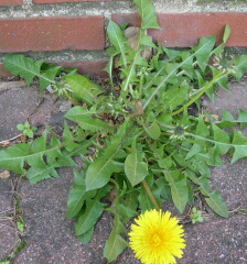 A Dandelion, above ground structures, by Adam Retchless